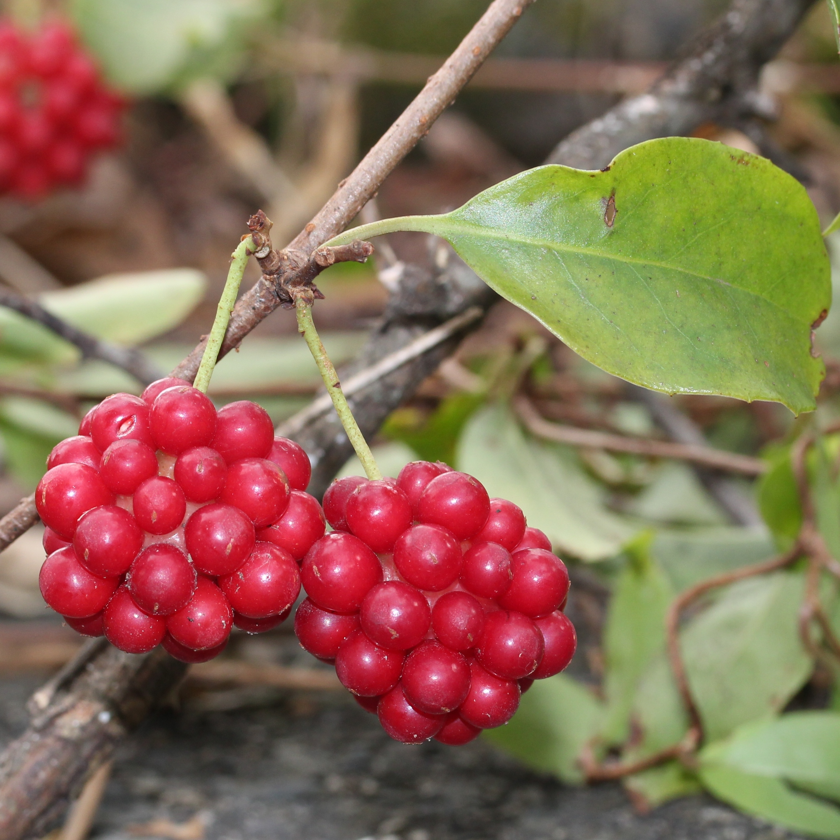 Kadsura japonica in Aichi Prefecture, Japan.